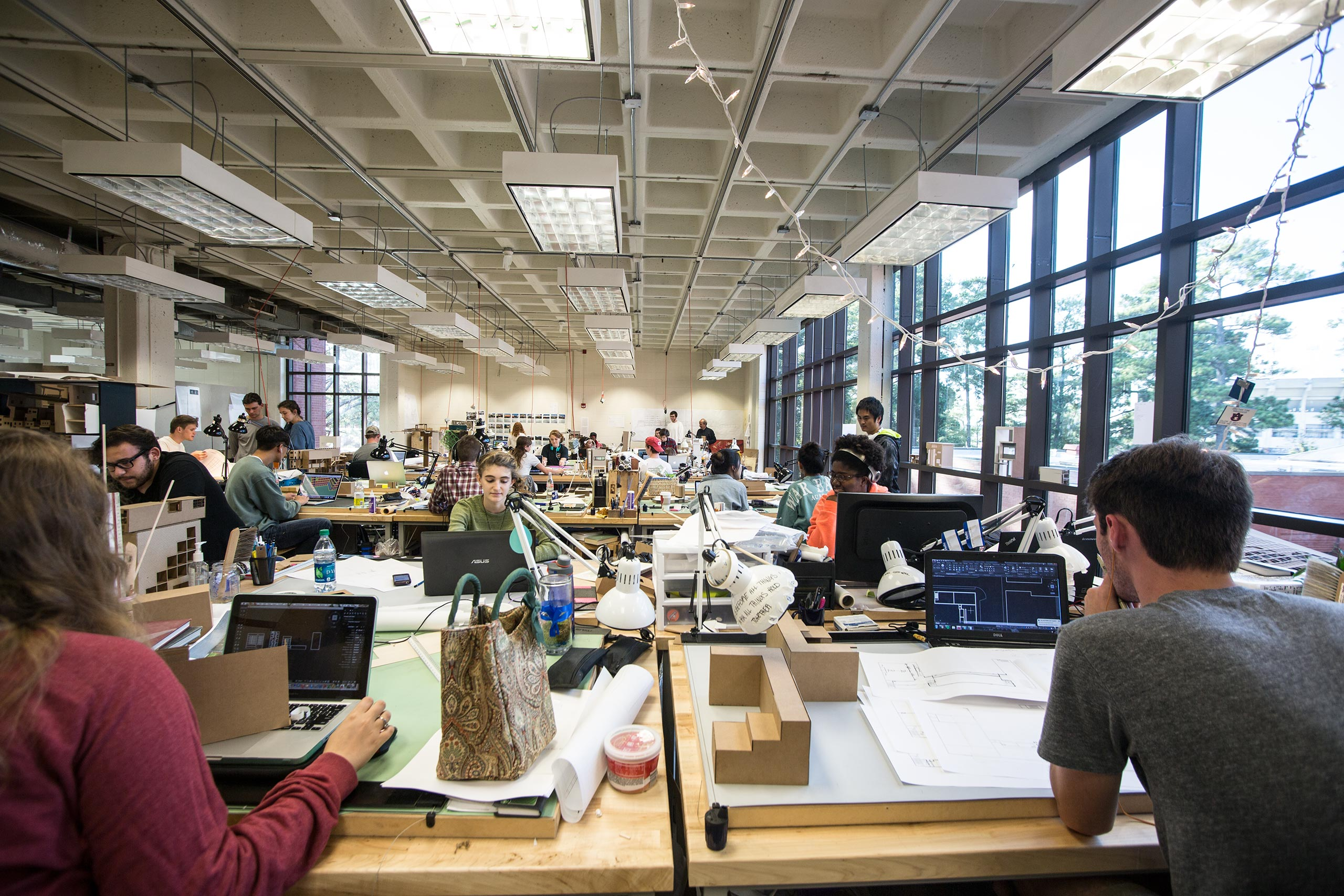 Classroom with students